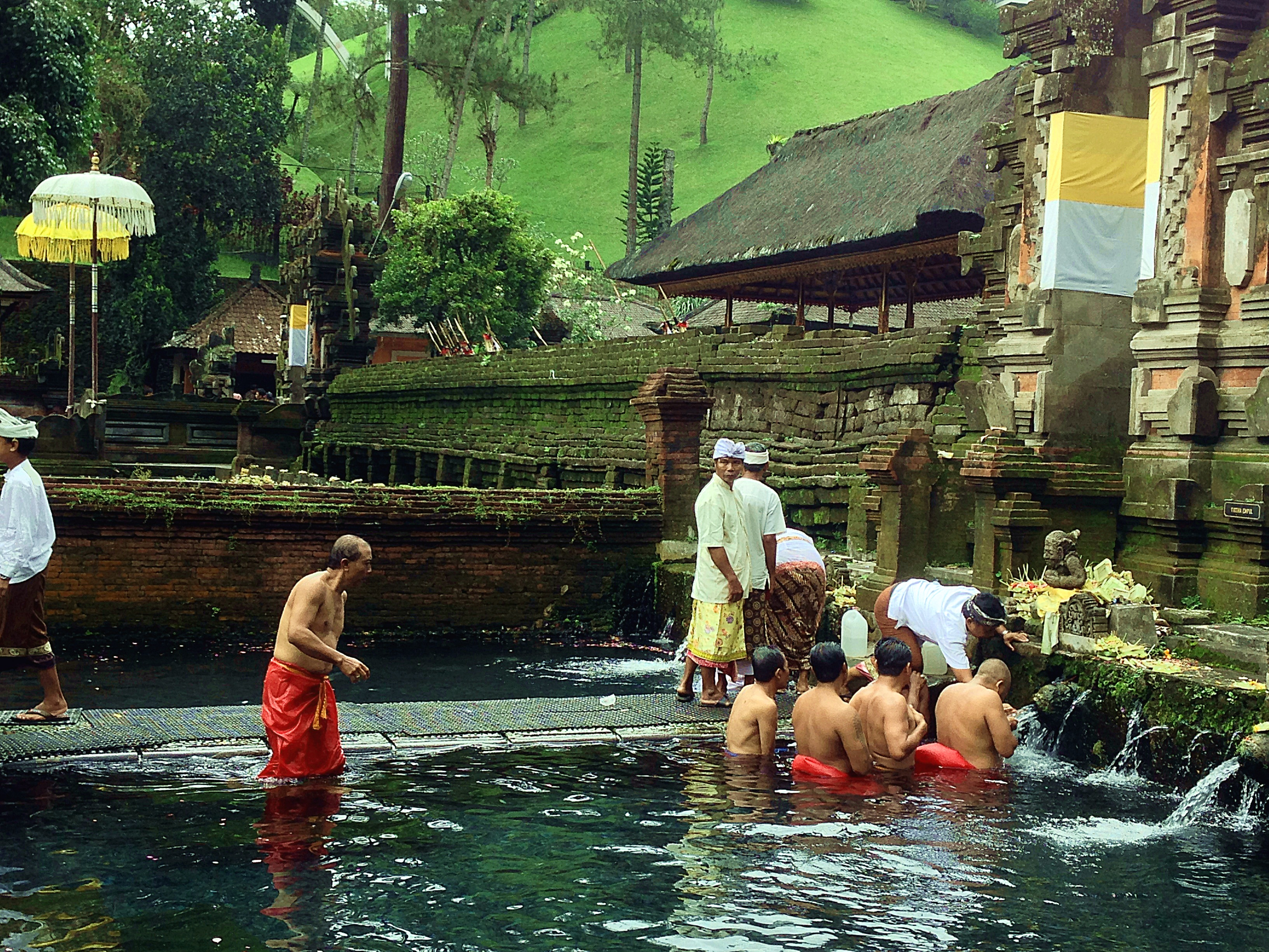 A beautiful and old Hindu temple which hosts rituals. The temple has holy springs in which devotees bathe.